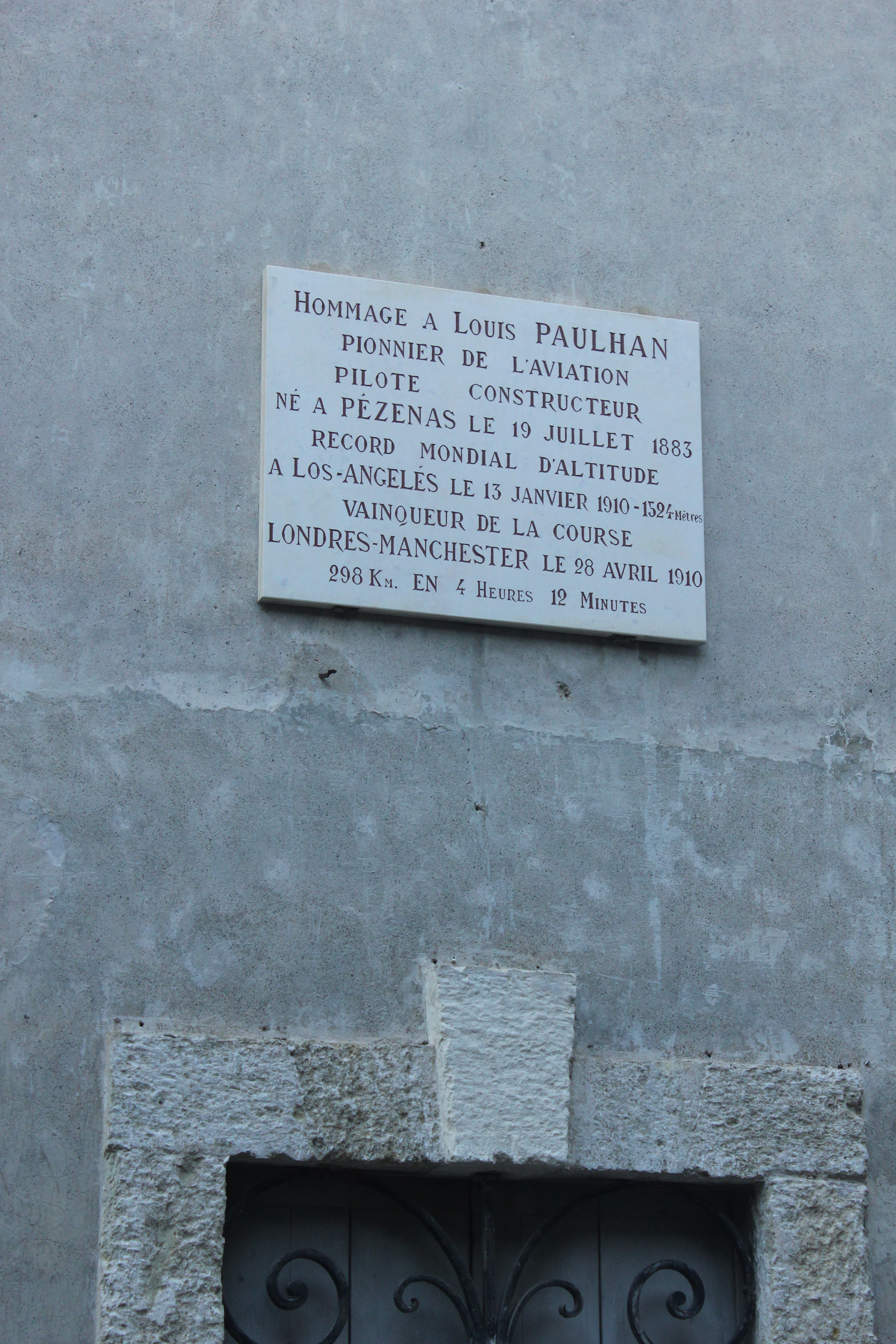 Paulhan memorial, Rue Conti, Pezenas